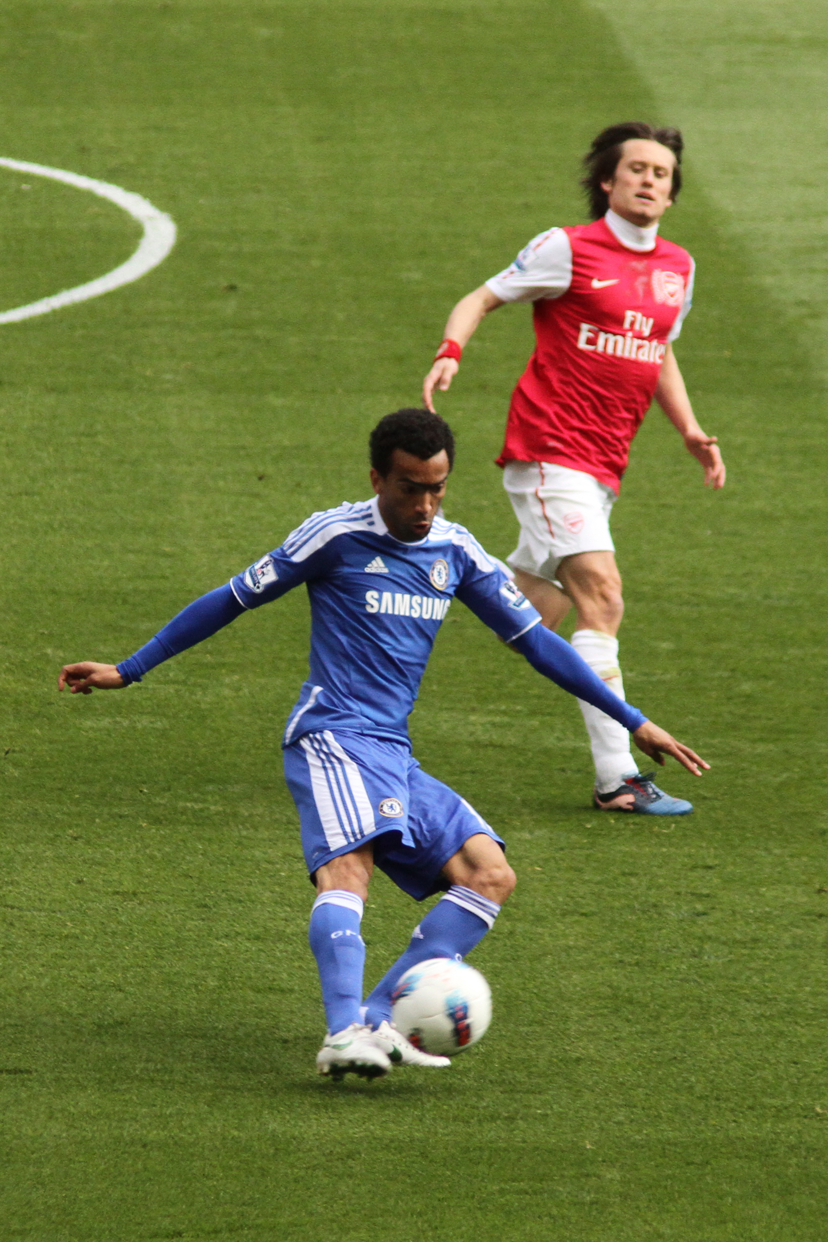 Arsenal vs Chelsea, April 2012